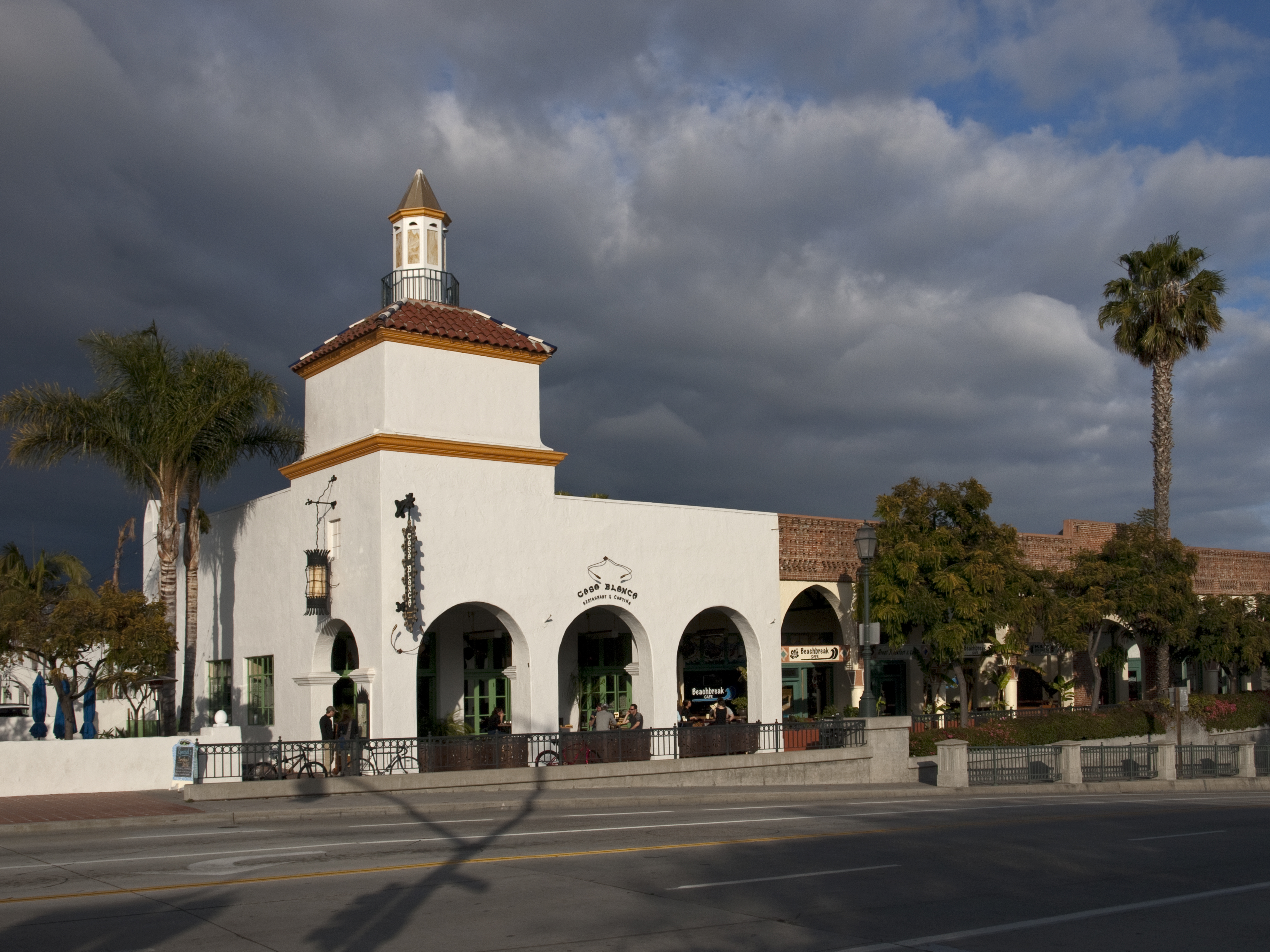 Andalucia Building, Santa_Barbara, CA, northern end